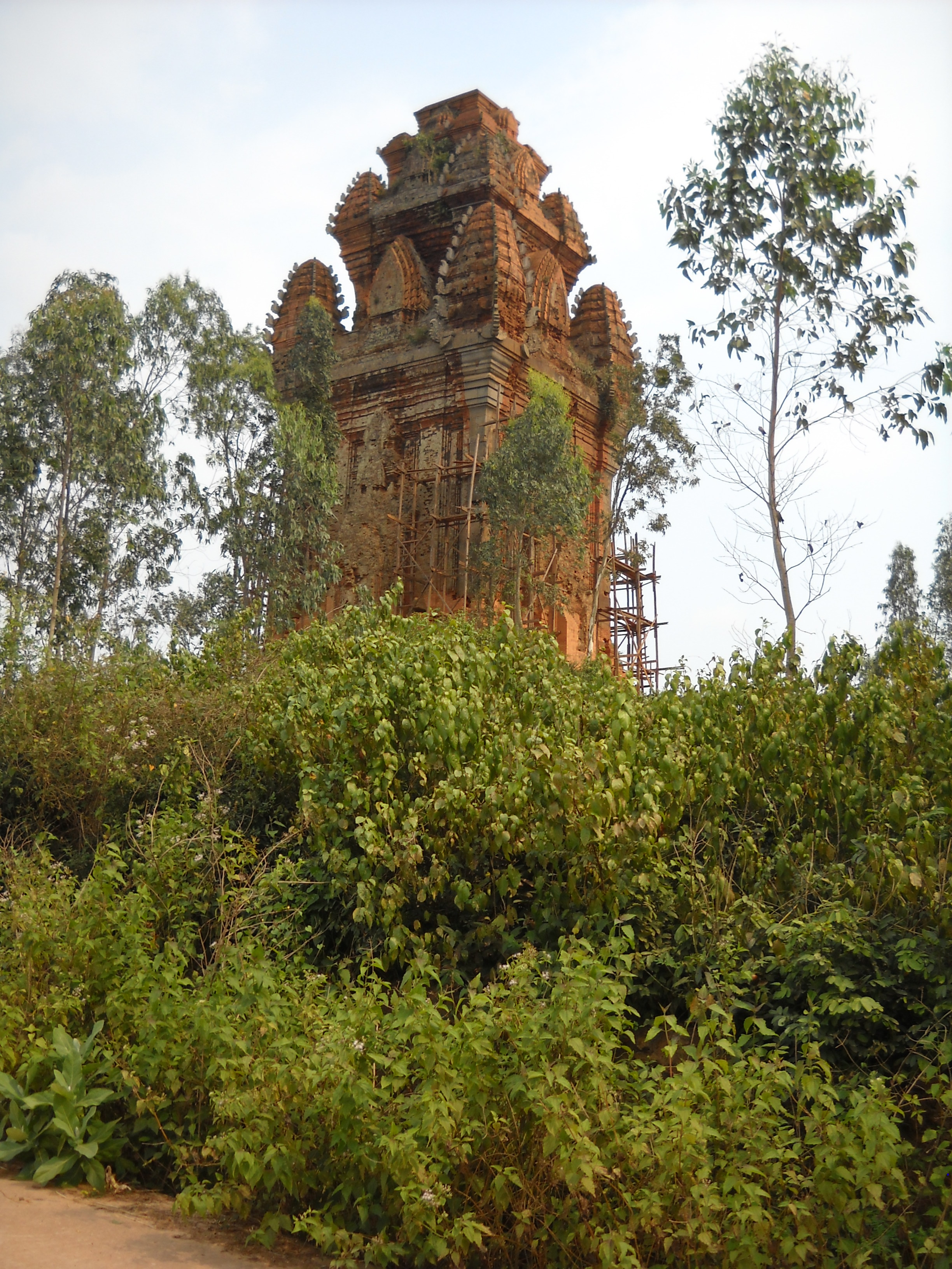 Cham tower Canh Tien in An Nhon district, Binh Dinh province, Vietnam